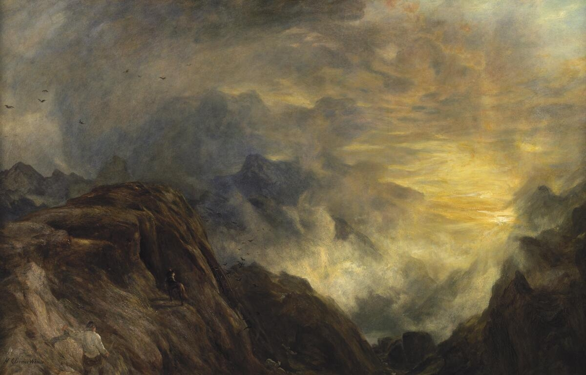 A painting from the Framed Works of Art collection at the National Library of wales.